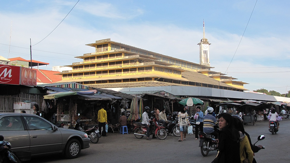 Battanbang Central Market, Cambodia